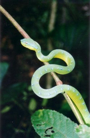 Asian pit viper (Trimeresurus sp.) photographed by Helen Creighton in Bako National Park, Sarawak, April 2003.